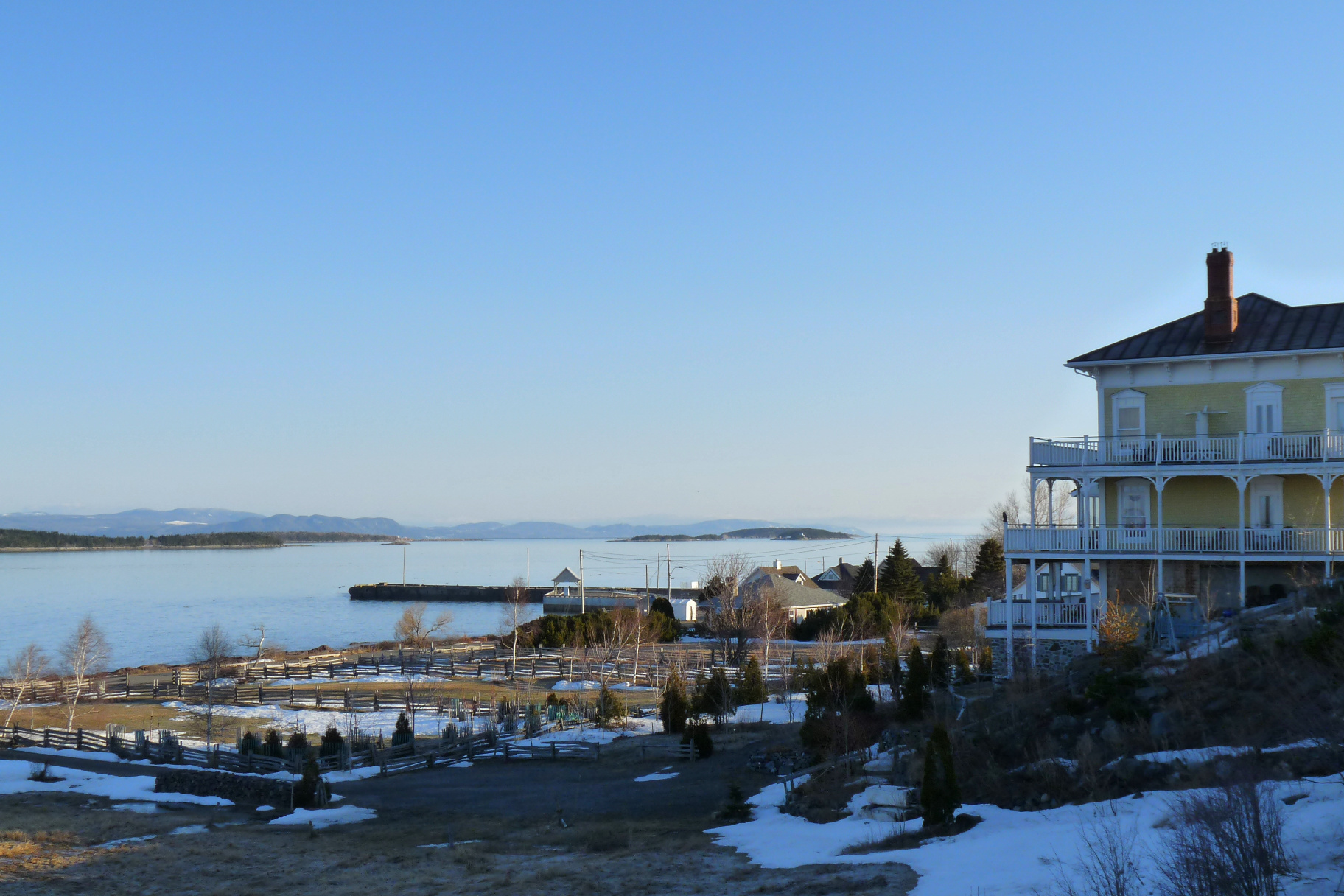 View of the Saint Lawrence River at the village of Kamouraska, Quebec, Canada